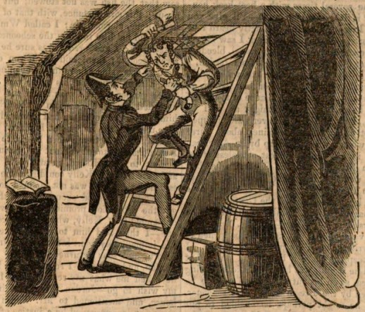 Jordan attacking Captain Stairs with and axe, illustration for "The Trial of Edward Jordan and Margaret His Wife, for Piracy", published in The Annals of Crime, and New Newgate Calendar, 1834. The trial occured in 1809 in Halifax, Nova Scotia.